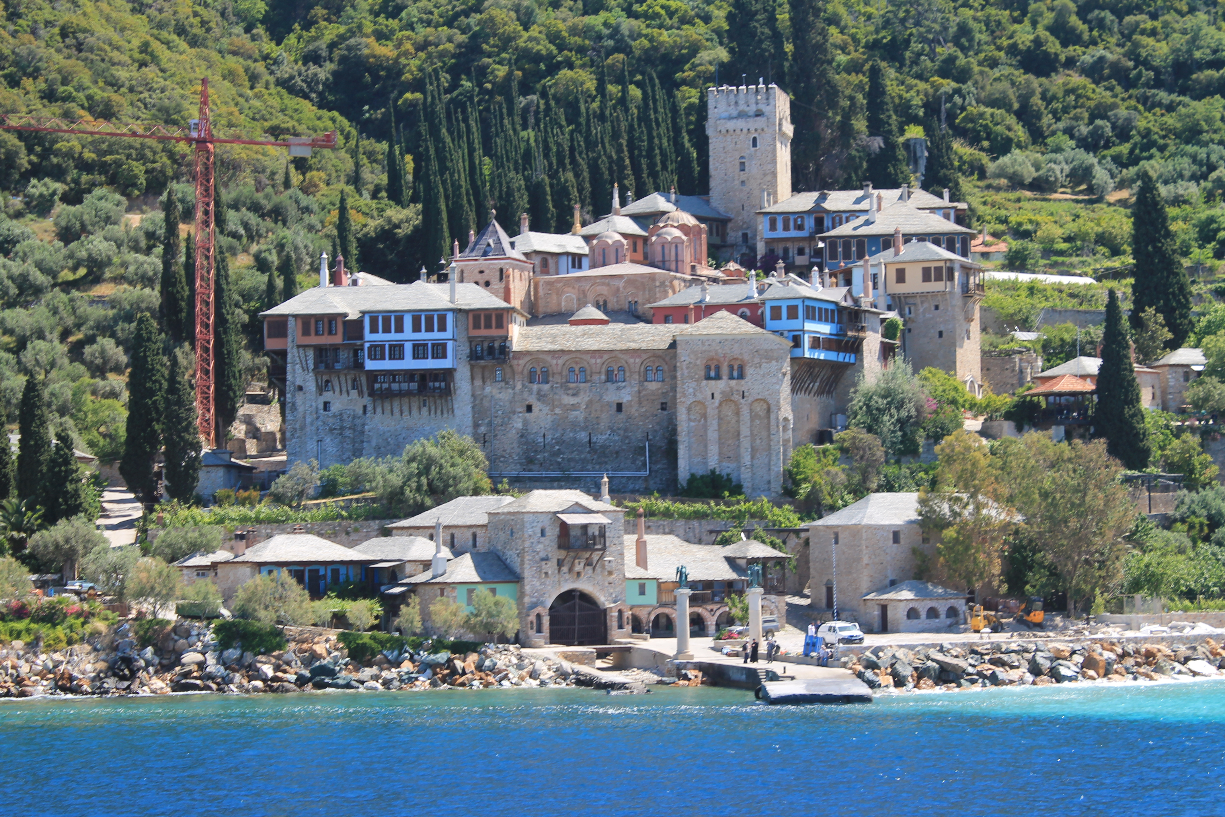 View from Docheiariou monastery, Mount Athos, Greece